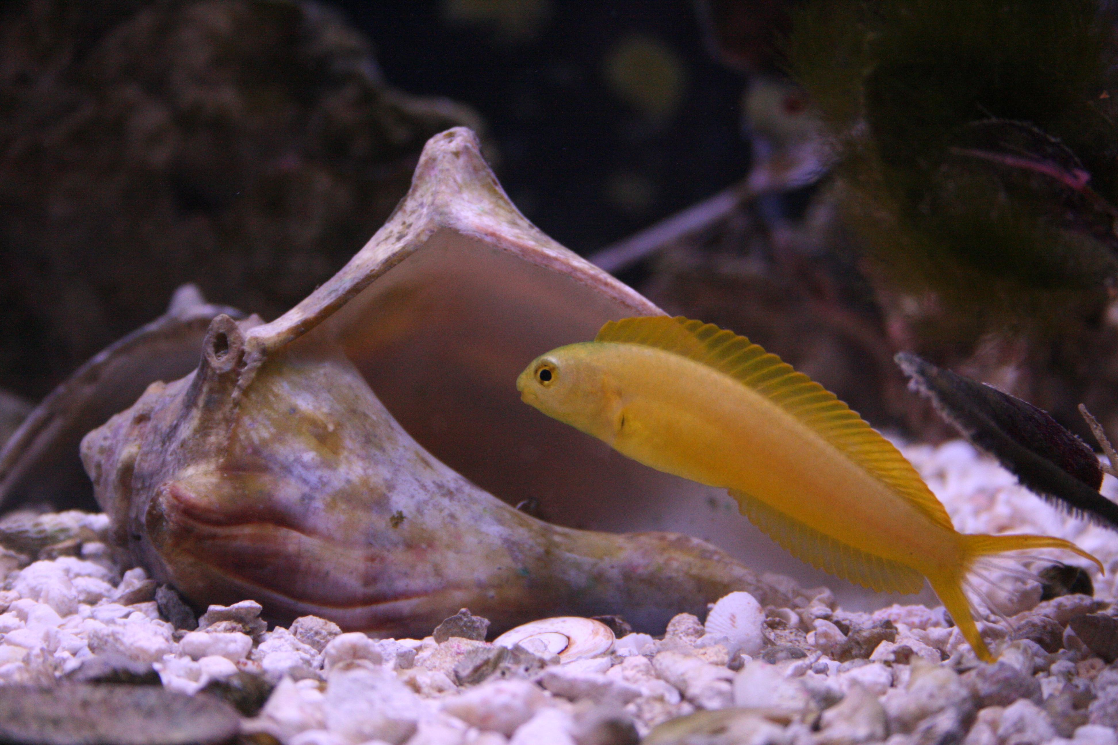 This is a photo of a Canary Fang Blenny from my marine aquarium.